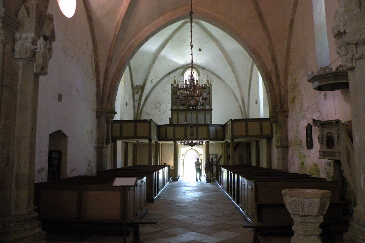 Karja church in Saaremaa